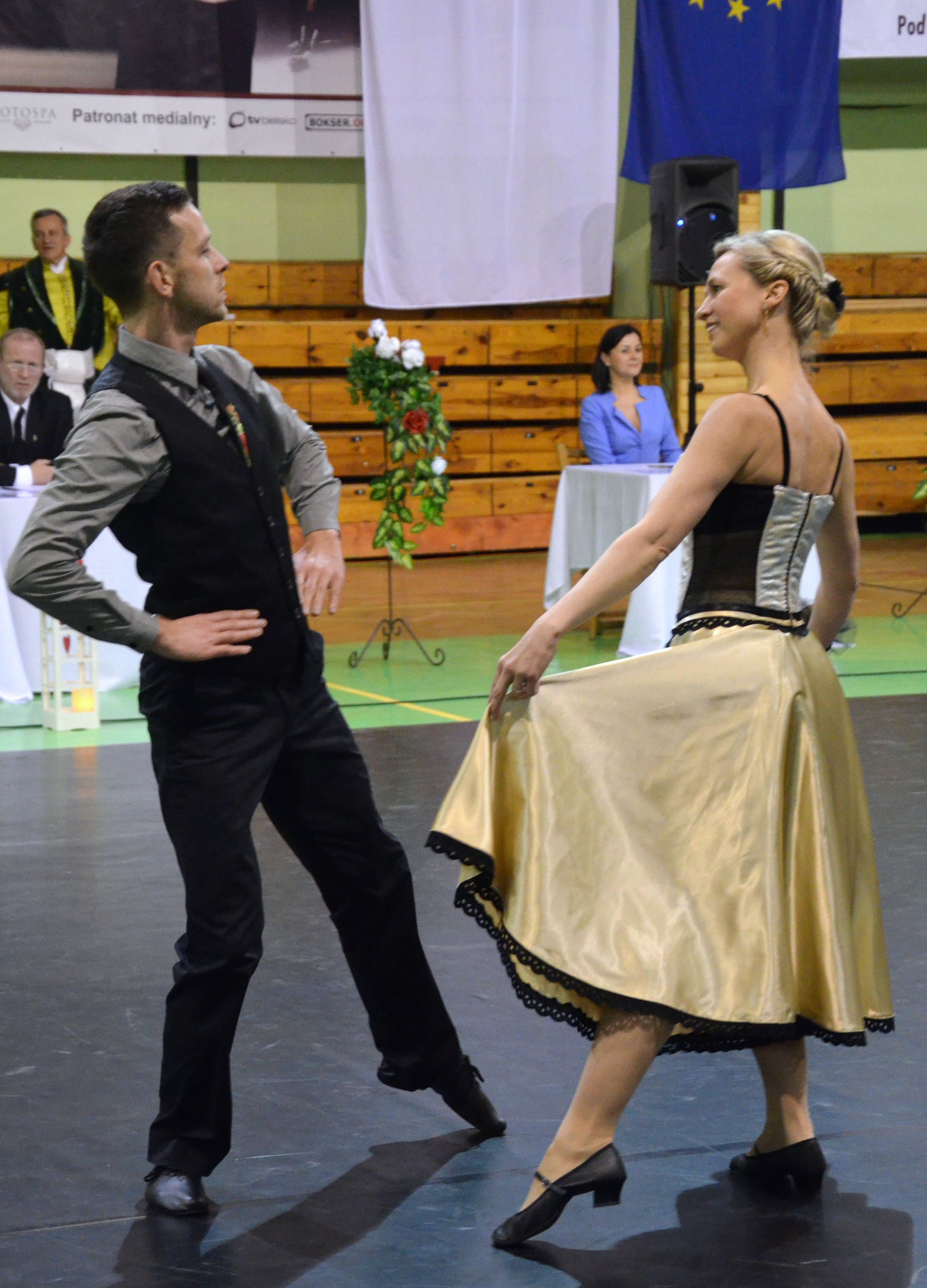 Kujawiak - Volkstanz